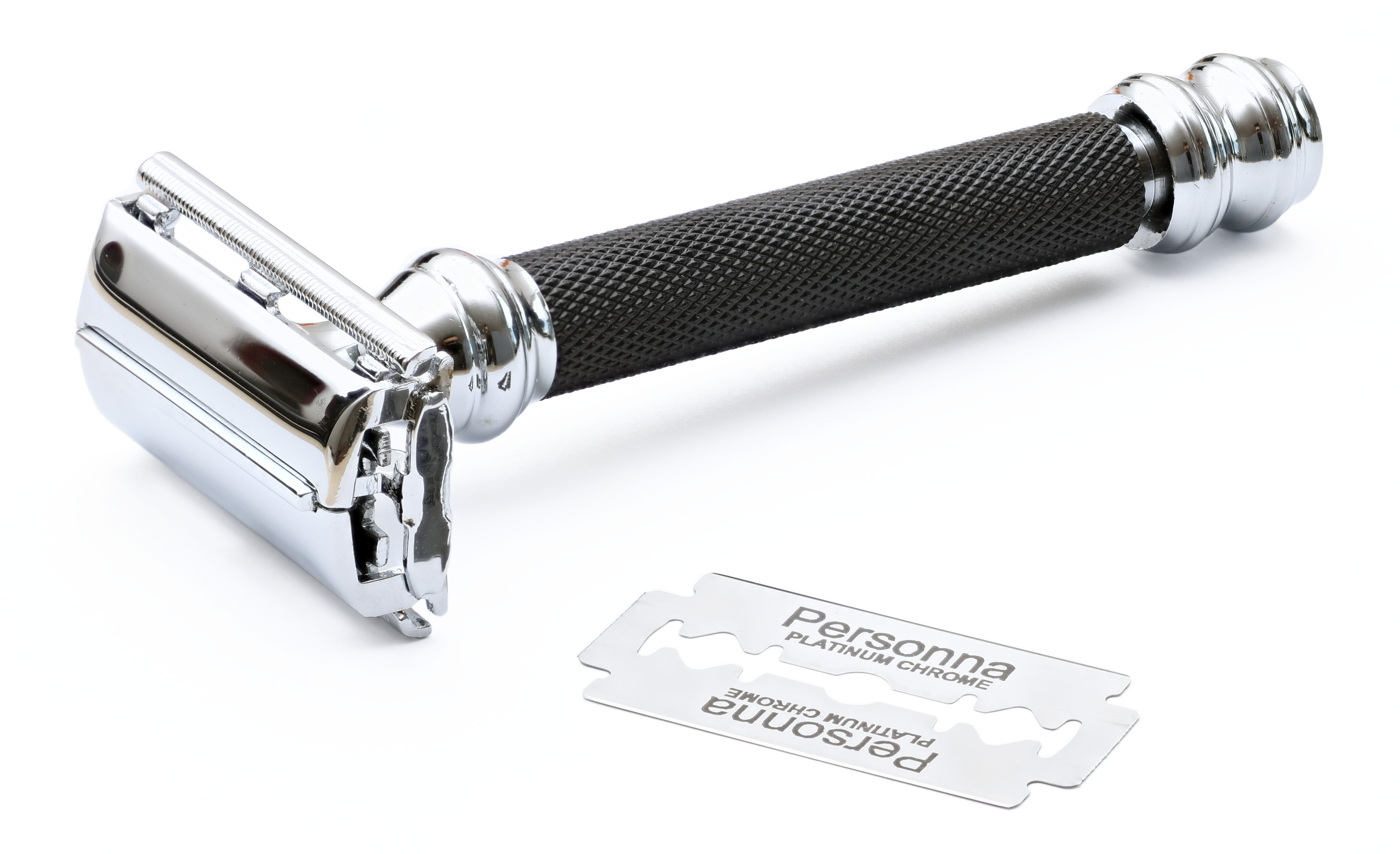 Safety Razor by Parker. Picture is a stack of 10 single images, combined with Zerene Stacker, edited in GIMP.